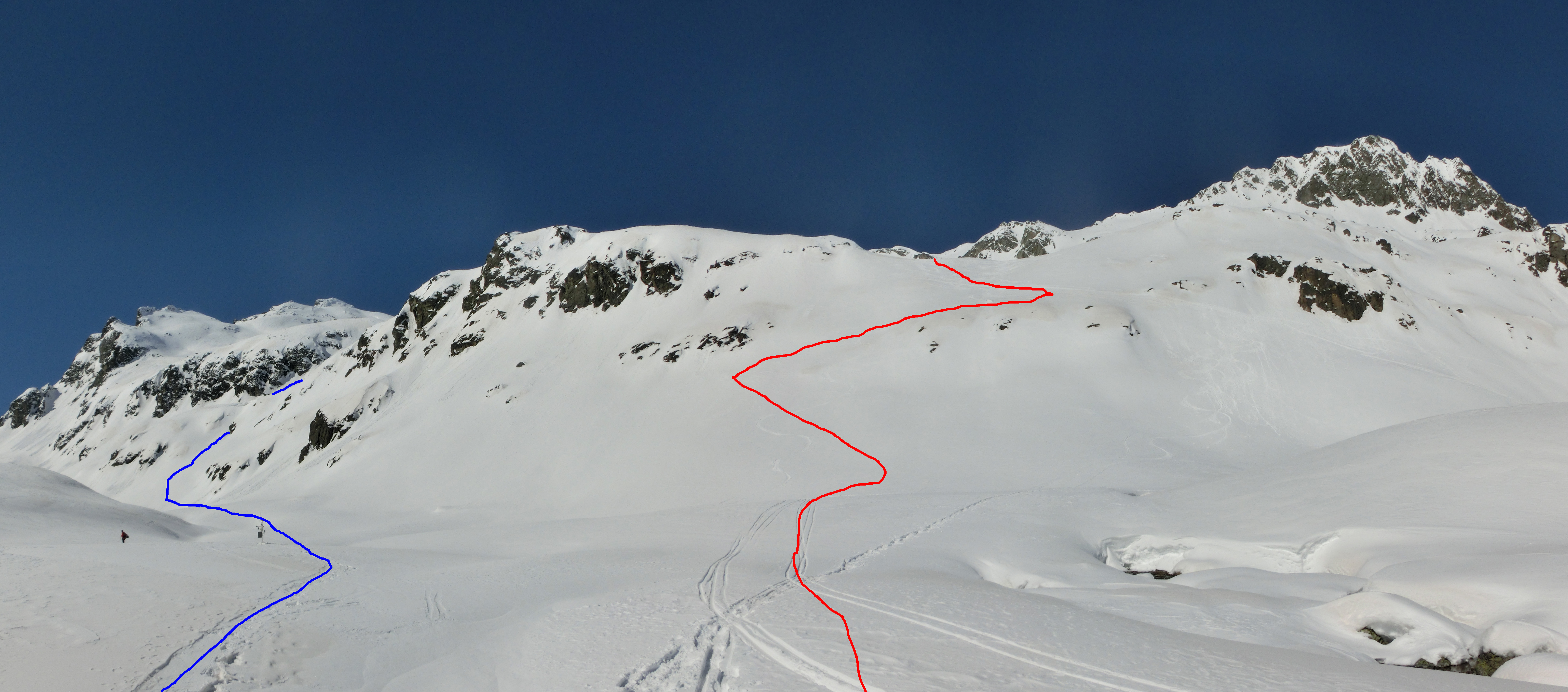 Decision point near Plaun Grand on the way to Piz Grevasalvas. Red: steep ascent for safe conditions, Blue: safe alternative. Sils im Engadin/Segl, Bregaglia, Bivio, Grison, Switzerland